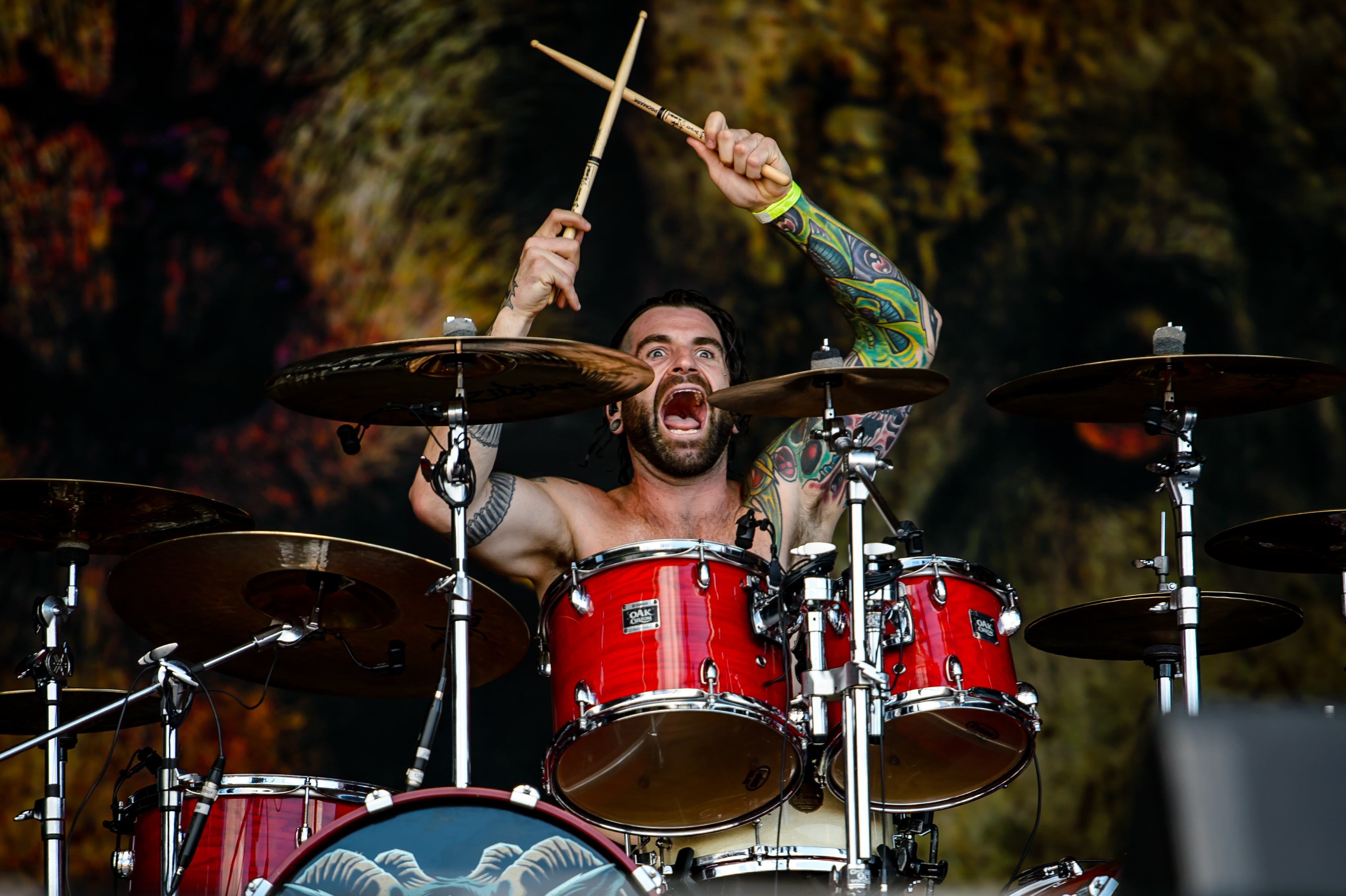 DevilDriver; Wacken Open Air 2016